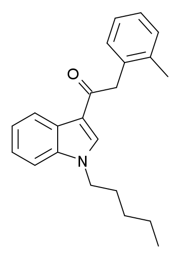 Structure of JWH-251